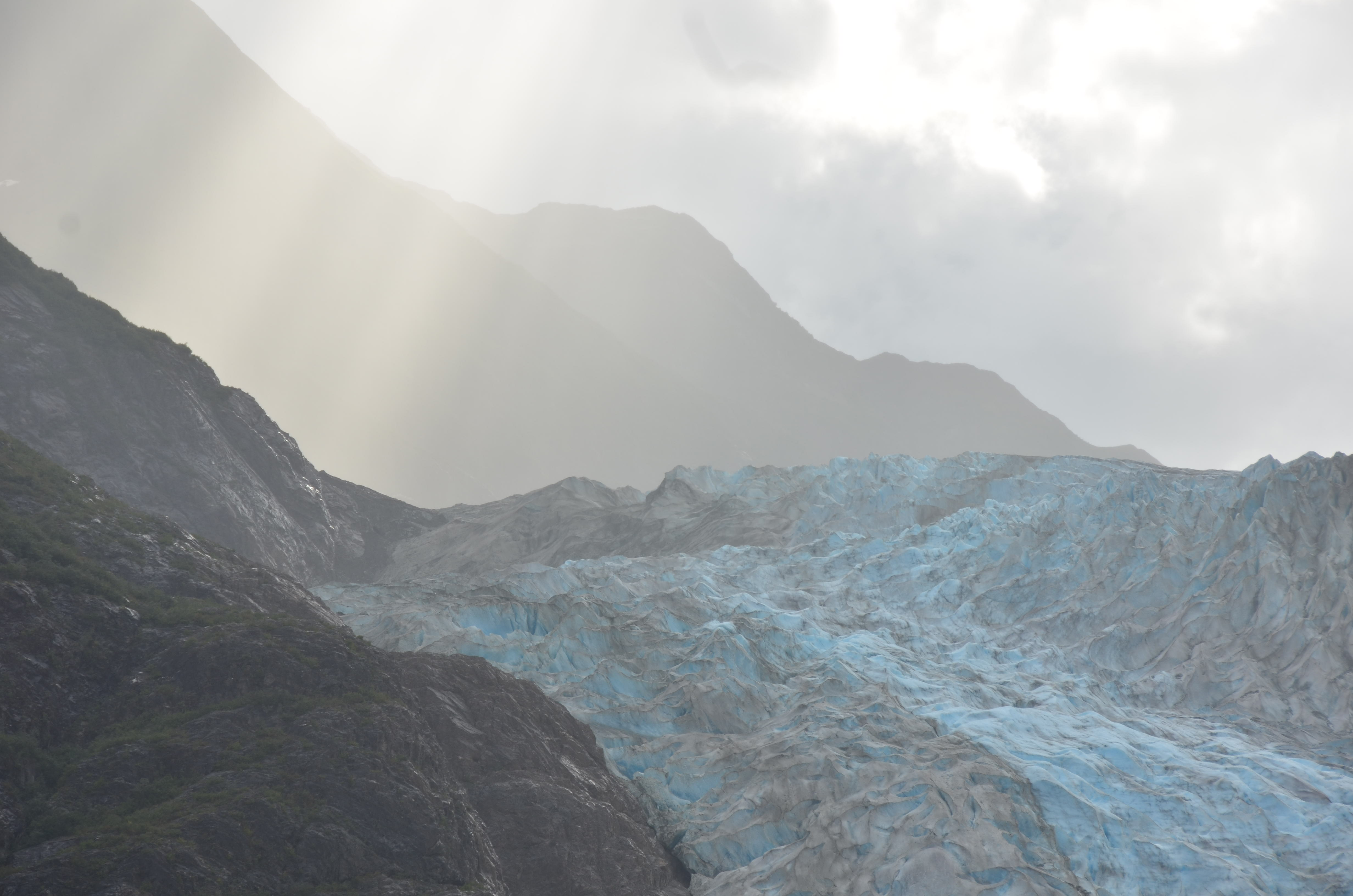 Davidson Glacier, 24 August 2011